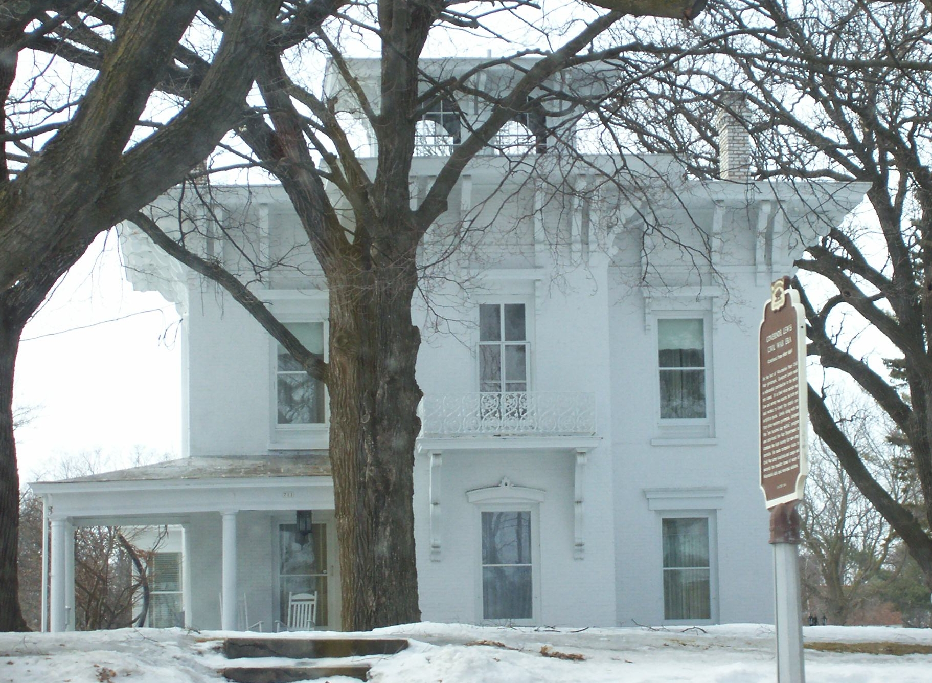 The Governor James T. Lewis (Wisconsin) house in Columbus, Wisconsin. The house is listed on the National Registry of Historic places.